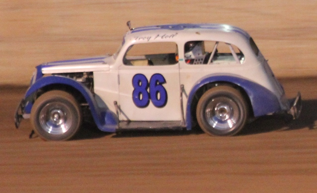 The legends car of 2013 U.S. Dirt Nationals Young Lions class national champion Troy Hoff of Flasher, North Dakota at Beaver Dam Raceway in Beaver Dam, Wisconsin.